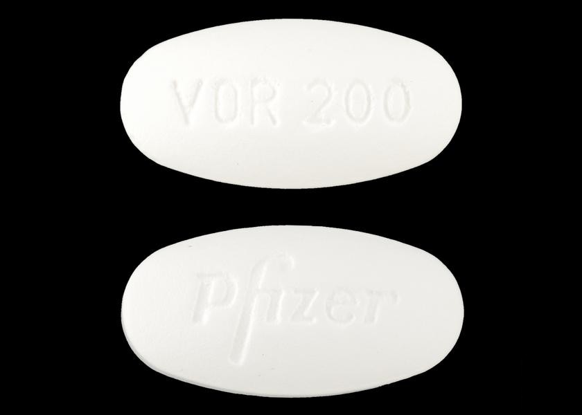 Drug Name: Vfend 50 MG Oral Tablet Ingredient(s): Voriconazole Drug Label Imprint: Pfizer;VOR50 Color(s): White Shape: Round Size (mm): 7.00 Score: 1 Inactive Ingredient(s): ShowHide lactose monohydrate / croscarmellose sodium / povi... lactose monohydrate / croscarmellose sodium / povidone / magnesium stearate / hypromellose / titanium dioxide / triacetin Drug Label Author: Roerig DEA Schedule: Non-scheduled